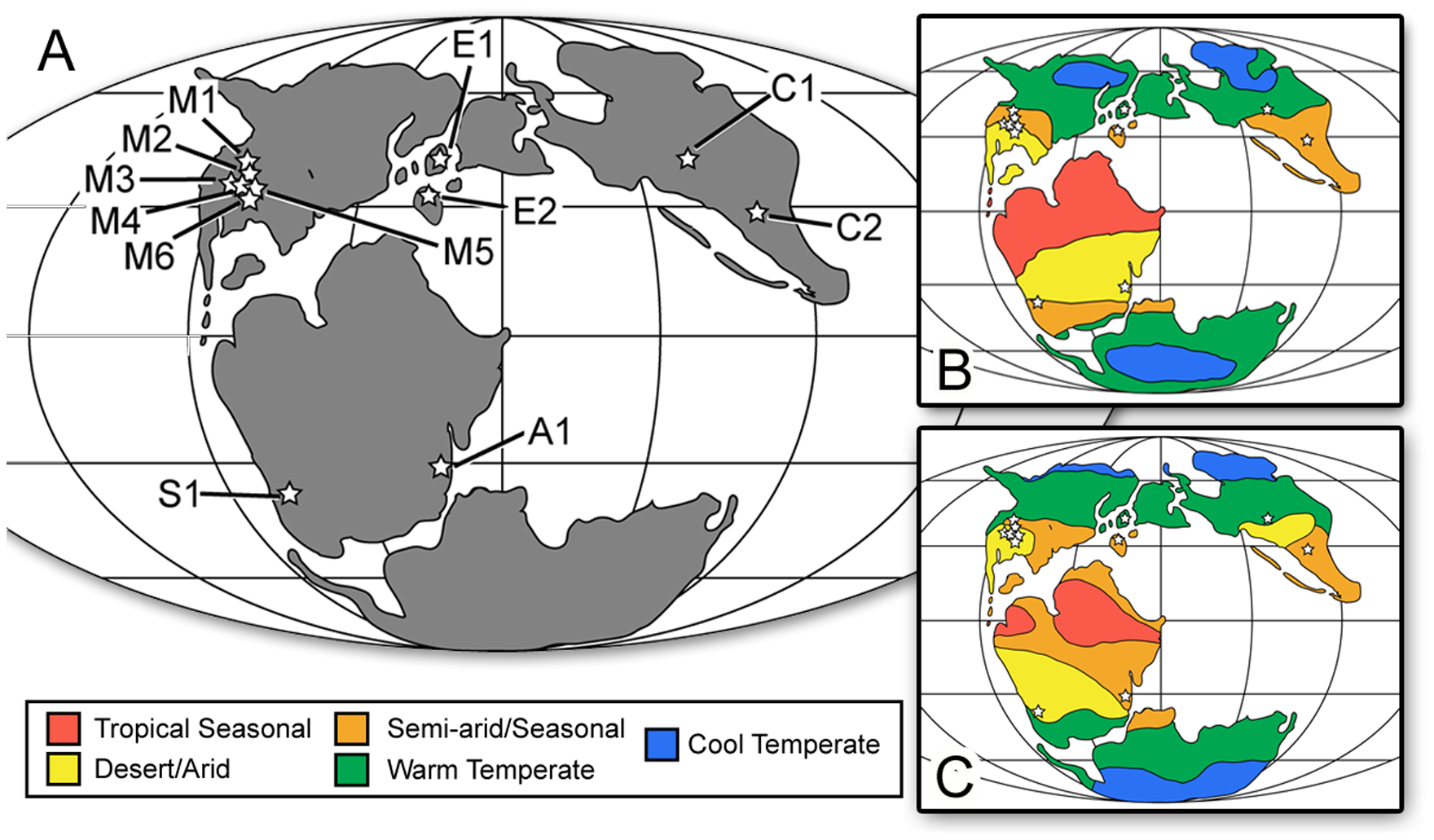 Paleogeography and paleoclimate of the Late Jurassic - 150 Ma with dinosaur fossil localities: A = Tendaguru Formation, Tanzania C1 = Shishugou & Kalazha Formations, China C2 = Shangshaximiao (Upper Shaximiao) Formation, China E1 = Sables de Glos, Argiles d’Octeville, Marnes de Bléville, Kimmeridge Clay, Calcareous Grit, Corallian Oolite, Oxford Clay, Portland Stone, England & France E2 = Villar del Arzobispo, Alcobaça, Guimarota, Sobral, Amoreira-Porto Novo, Bombarral, Freixial, Lourinhã Formations, Spain & Portugal M1-6 = Morrison Formation, United States S1 = Toquí & Cañadón Calcáreo Formations, Chile & Argentina